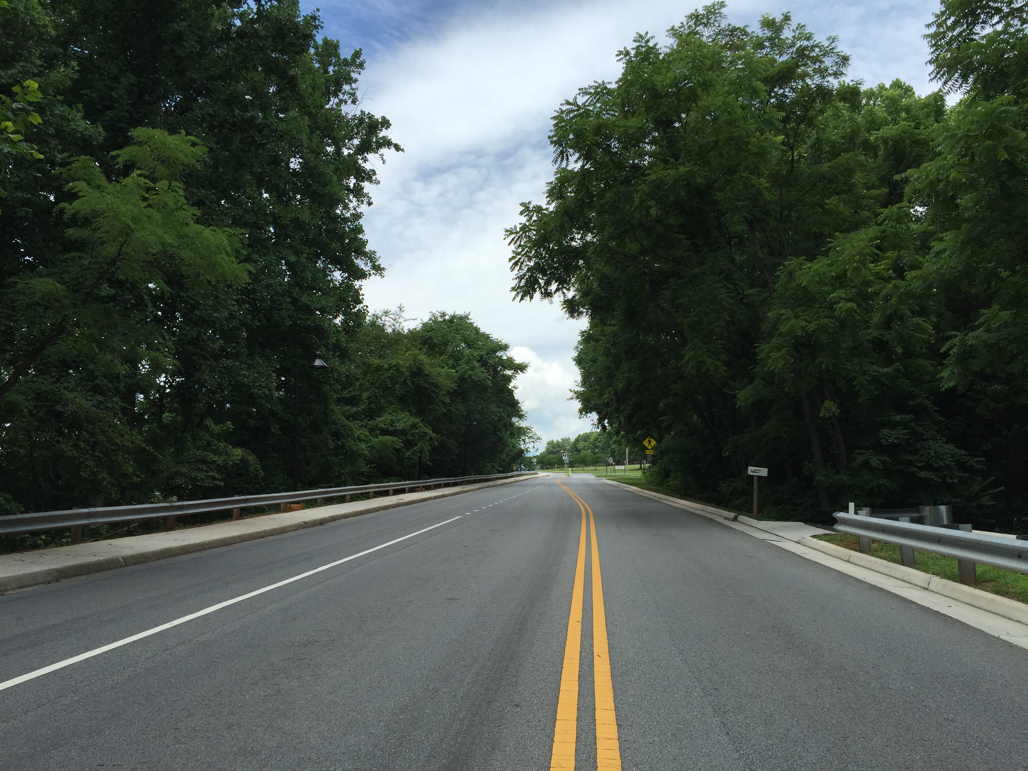 View west along Virginia State Route 368 (Harvard Street) at U.S. Route 29 Business (Wards Road) on the campus of the Central Virginia Community College in Lynchburg, Virginia